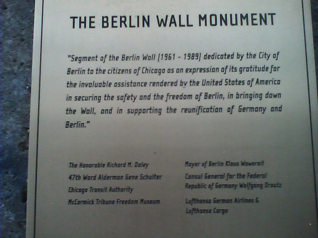 The Berlin Wall Monument at Western in Chicago reads: "Segment of the Berlin Wall (1961 - 1989) dedicated by the City of Berlin to the citizens of Chicago as an expression of its gratitude for the invaluable assistance rendered by the United States of America in securing the safety and the freedom of Berlin, in bringing down the Wall, and in supporting the reunification of Germany and Berlin."